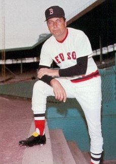 Image cropped from a baseball card of Darrell Johnson from the 1974 Boston Red Sox Yearbook Cards set.